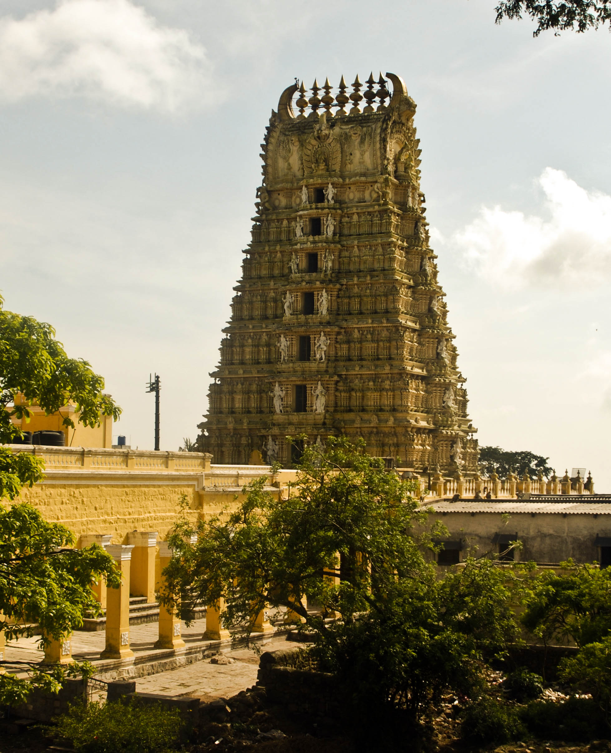 Chamundeswari Temple, Mysore